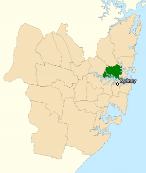 Incorporates or developed using Administrative Boundaries ©PSMA Australia Limited licensed by the Commonwealth of Australia under Creative Commons Attribution 4.0 International licence (CC BY 4.0). Derived from State and Territory Boundaries from the Australian Bureau of Statistics under Creative Commons Attribution 2.5 Australia license (CC BY 2.5 AU)